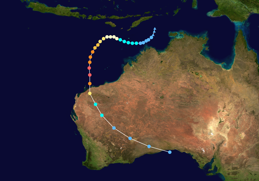 Cyclone Orson (1989) track. Uses the color scheme from the Saffir-Simpson Hurricane Scale.